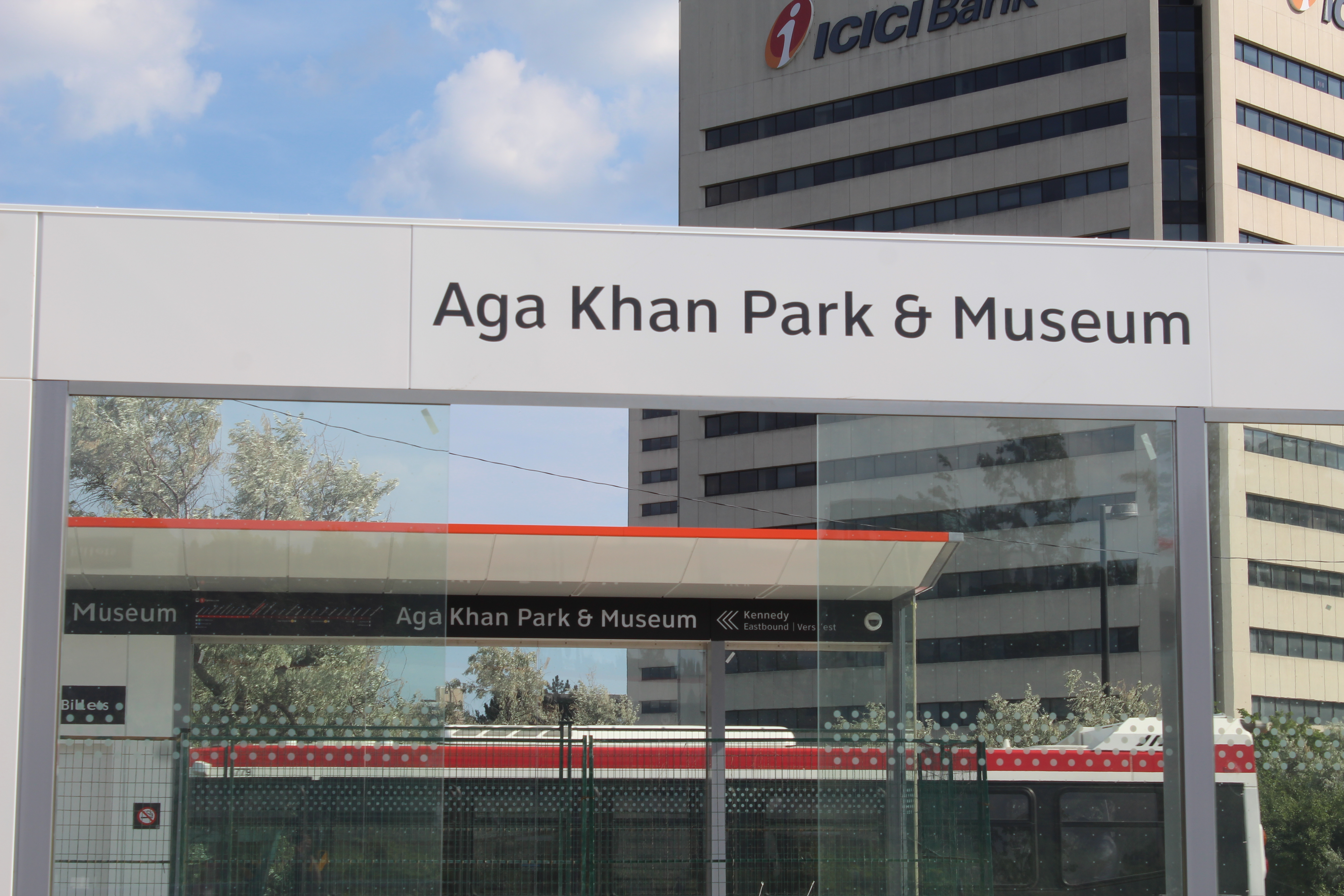 Aga Khan Park and Museum stop under construction on 26 July 2020, with TTC Novabus and ICICI Bank building on the background.